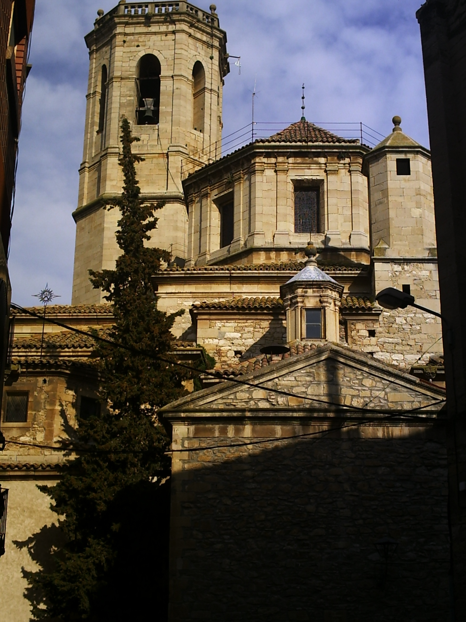 The church of Santa Maria de l'Alba, seen from Capellan's street.